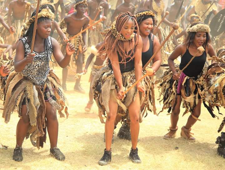 This is an image with the theme "Africa on the Move or Transport" from: Zambia